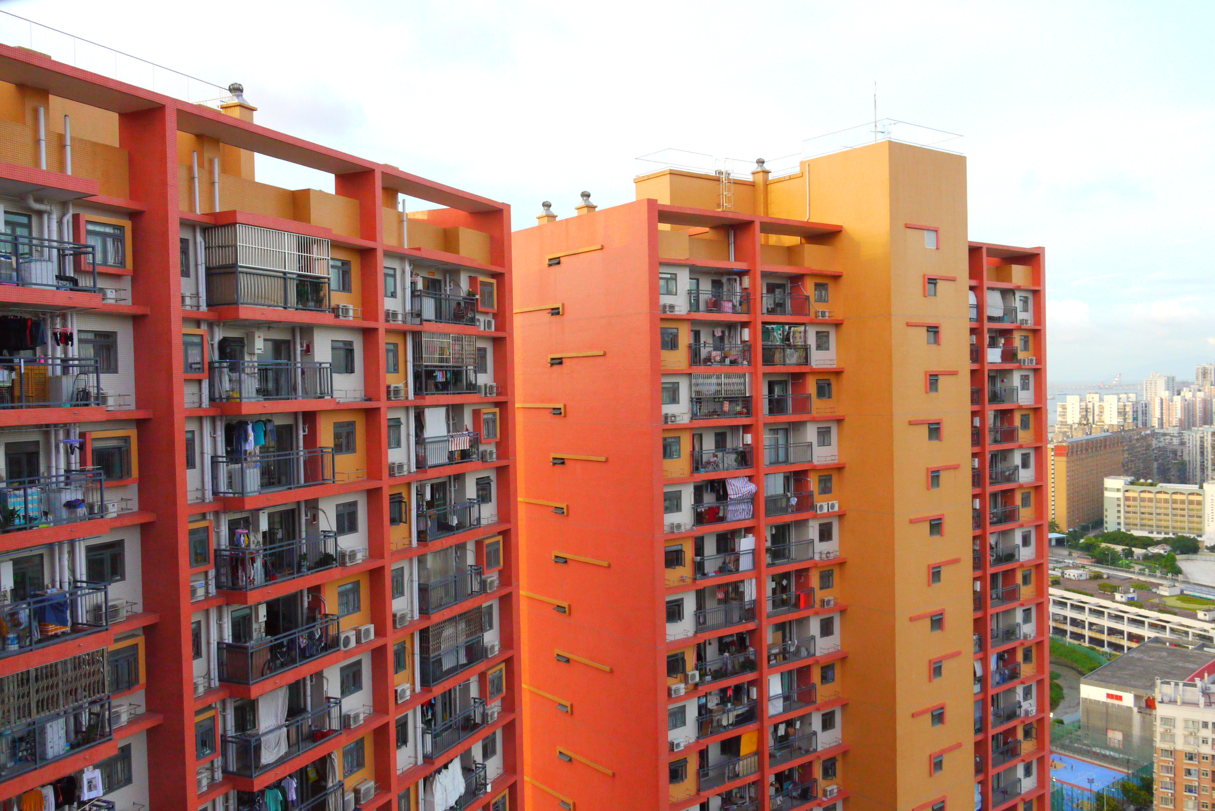 Cheng Chung Top Details